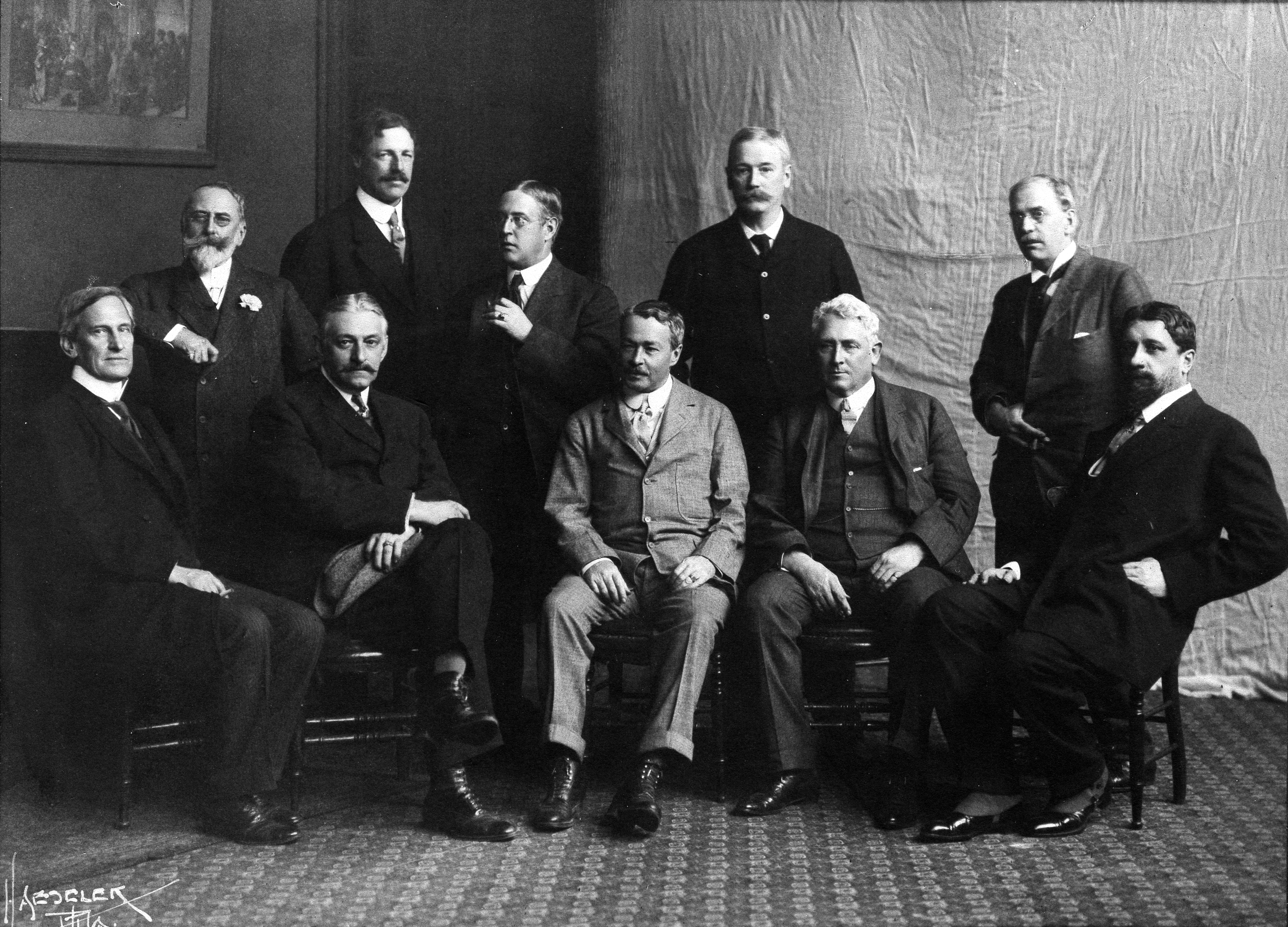 Ten American Painters (The Ten), 1908 Ten American Painters (The Ten), 1908, by Haeseler Photographic Studios, Philadelphia, Pennsylvania. Courtesy of the Smithsonian American Art Museum, Photograph Archives, Washington, D. C. Seated, left to right: Edward Simmons, Willard L. Metcalf, Childe Hassam, J. Alden Weir, Robert Reid Standing, left to right: William Merritt Chase, Frank W. Benson, Edmund C. Tarbell, Thomas Wilmer Dewing, Joseph DeCamp